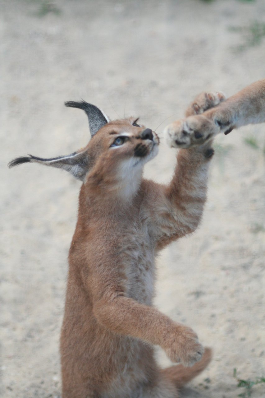 Caracal kitten